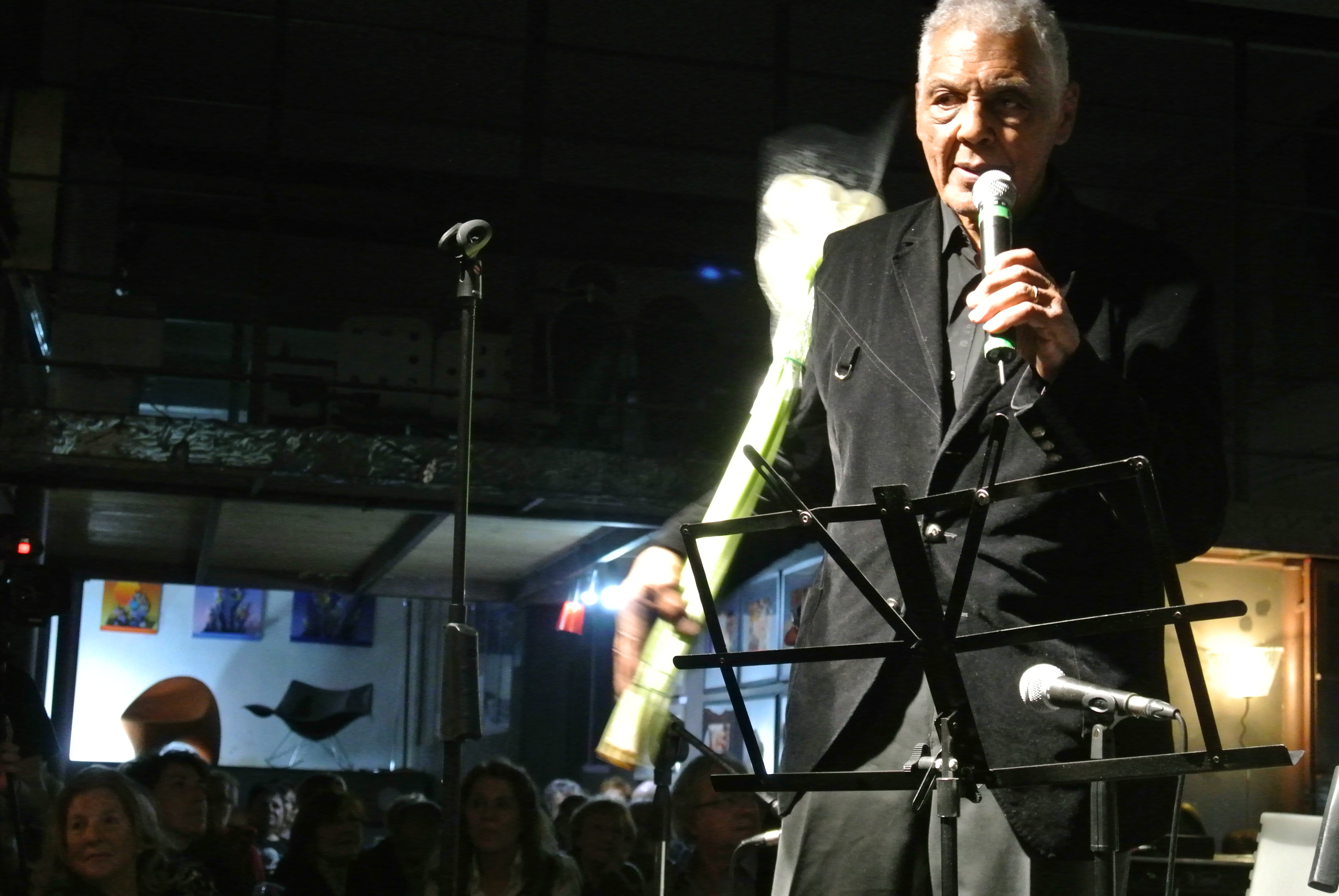 Harold W. Bradley Jr - former professional football player, TV host, painter, singer, stage and cinema actor, Chicago and Rome, Italy During performance in Rome: Tribute concert to his deceased wife, Hannelore